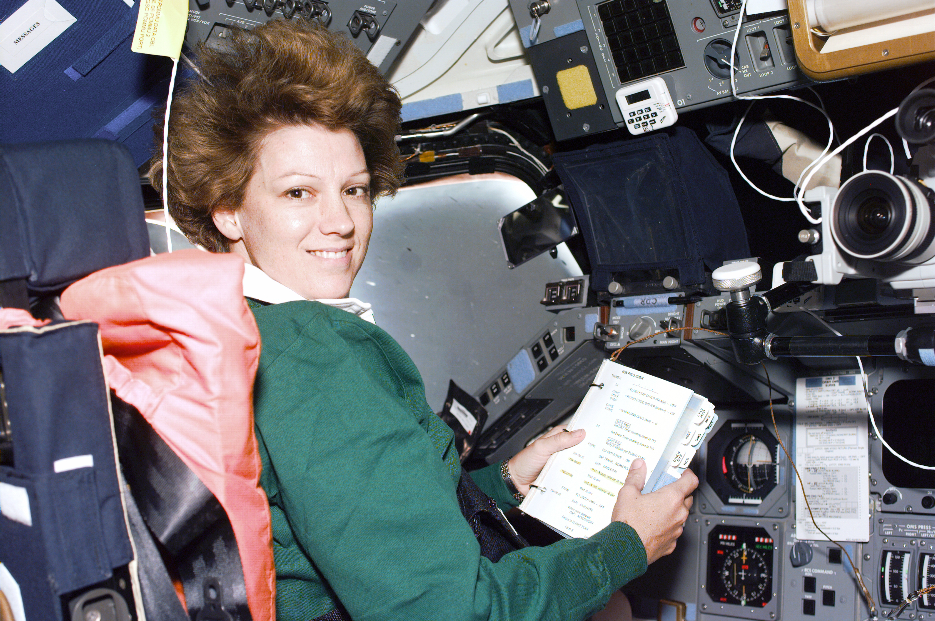 Eileen Collins in orbit on STS-93 on July 24, 1999. She is "consult[ing] a checklist while seated at the flight deck Commander's station".